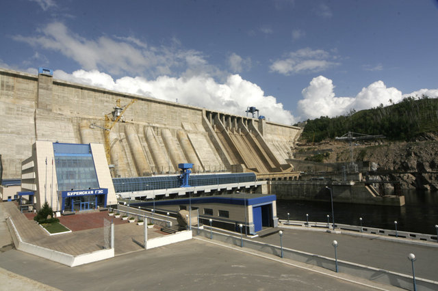 Bureya HPP